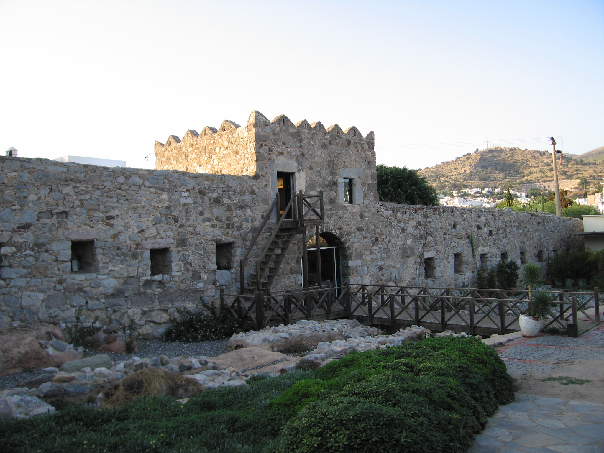 Historical Shipyard in Bodrum, Turkey